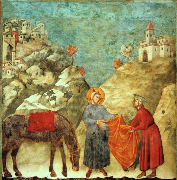 Legend of St Francis